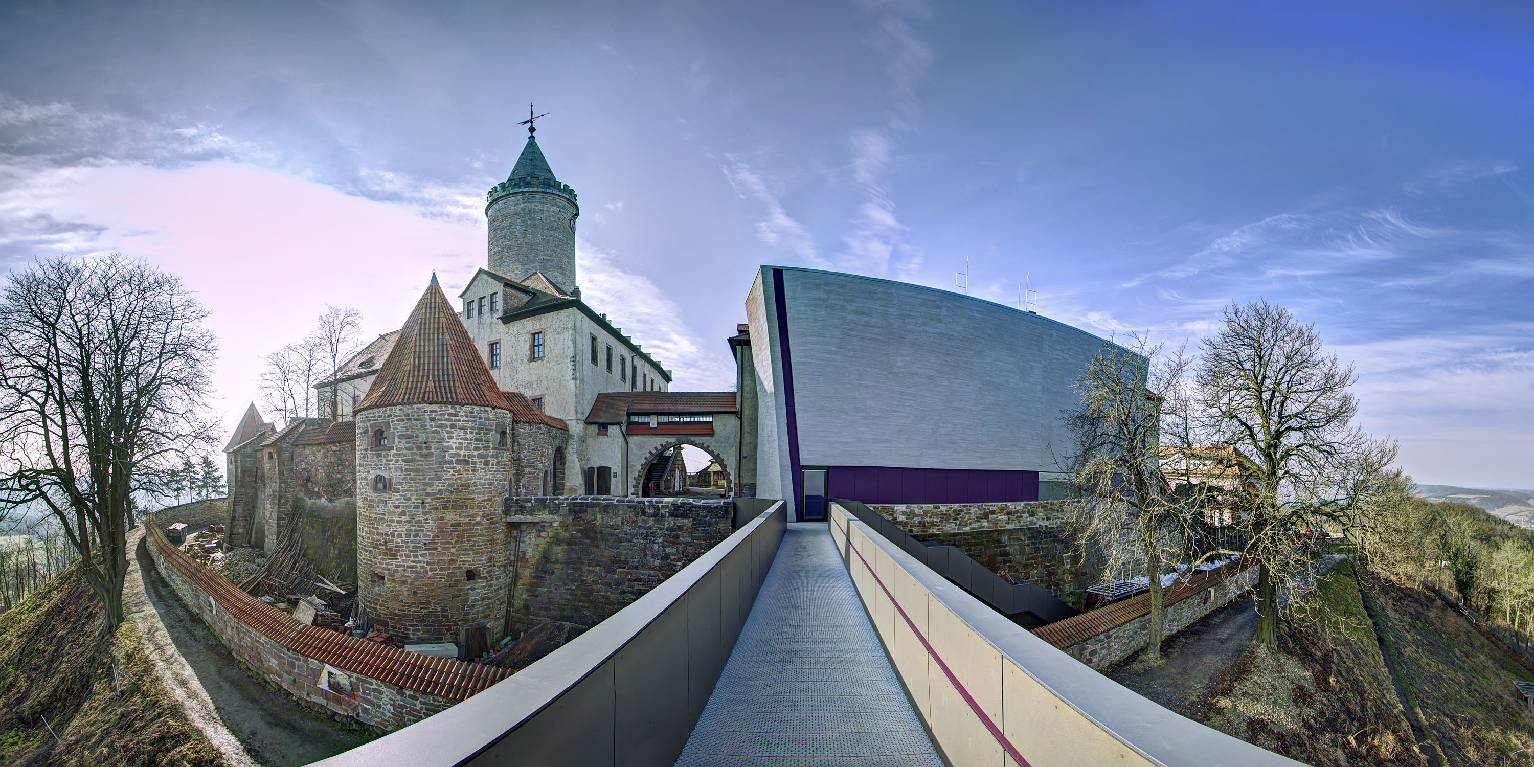 External view of the new building on the Leuchtenburg near Kahla (Thuringia), where the ARURA is inside.